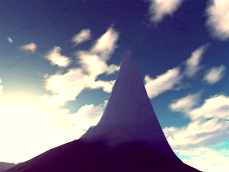 Demo for Terragen Landscape Generator. Title: The Lonely Mountain on Durin's Day. Illustration for J. R. R. Tolkien: The Hobbit. Gubbubu 10:11, 19 May 2006 (UTC)